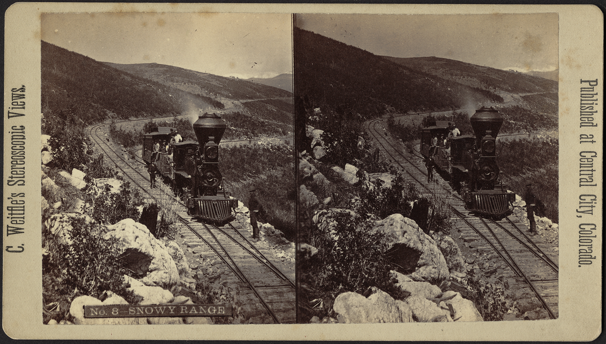 Local Accession Number: 06_11_005670 Title: Snowy range Statement of responsibility: Photographed by Chas. Weitfle, Central City, Colo. Creator/Contributor: Weitfle, Charles, 1836-1921 (photographer) Genre: Stereographs; Photographic prints Created/Published: Central City, Colorado : C. Weitfle's Stereoscopic Views Date issued: 1878-1920 (inferred) Physical description: 1 photographic print on stereo card : stereograph ; 10 x 18 cm. General notes: itle from item.; No. 8.; Part of series: Views on Colorado Central R.R. from Black Hawk to Central City. Date notes: Date supplied by cataloger based on the item image or text on item. Subjects: Mountains; Railroads Collection: Stereographs Collection Location: Boston Public Library, Print Department Rights: Rights status not evaluated